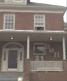 Beta Theta Pi Fraternity house with the 21 Society's "21" painted on the exterior.